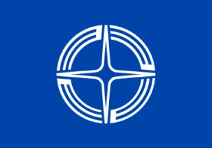 Flag of Yoshida Shizuoka